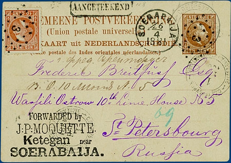 Postal card Geuzendam 5 sent to Friedrich Breitfuss, St. Petersburg, Russia with cachet by Moquette: 'Forwarded by Moquette Ketegan Soerabaja'